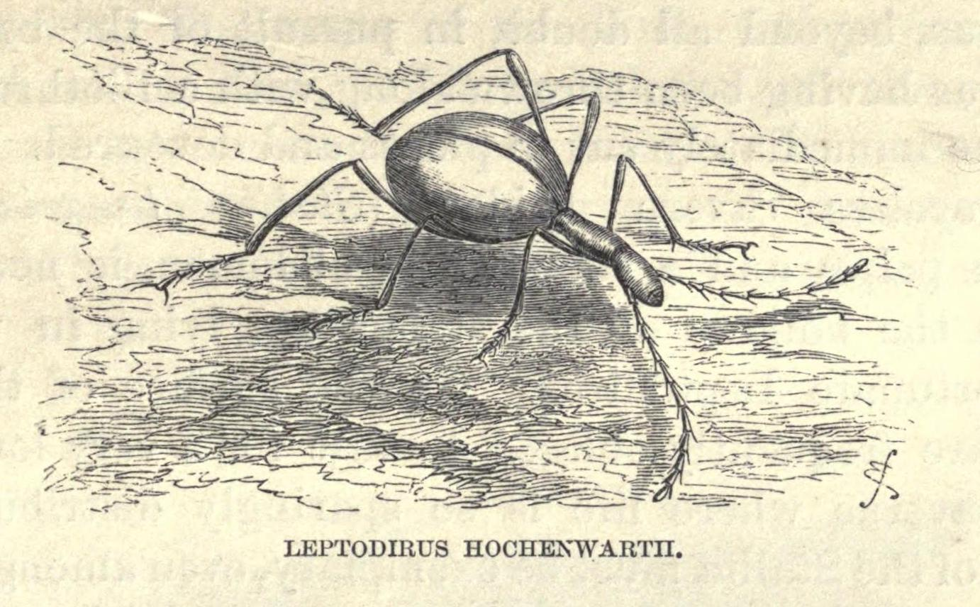 Leptodirus hohenwart the Blind Cave Beetle on old lithograph